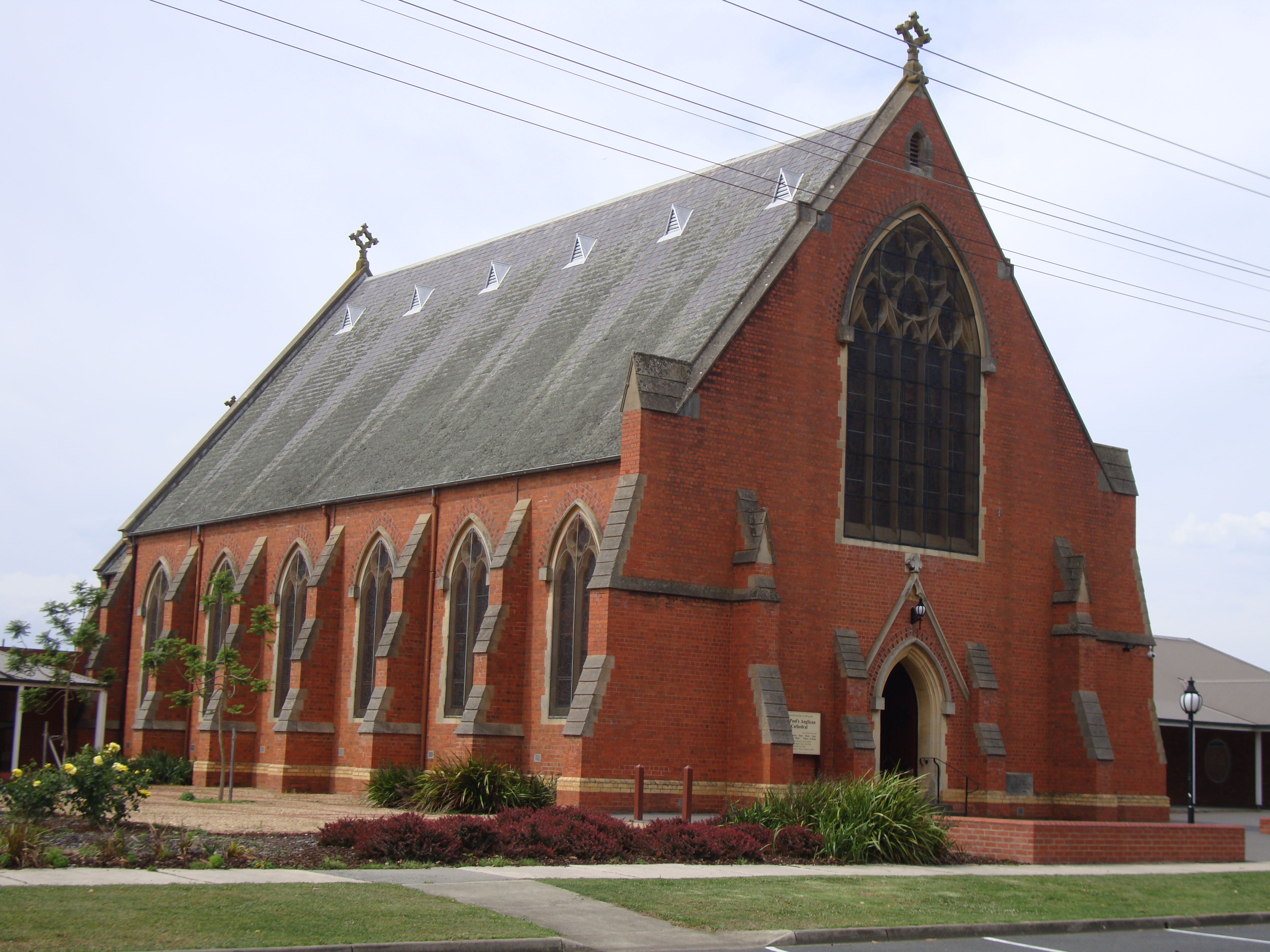 Photograph of St Paul's Cathedral, Sale, Victoria, Australia